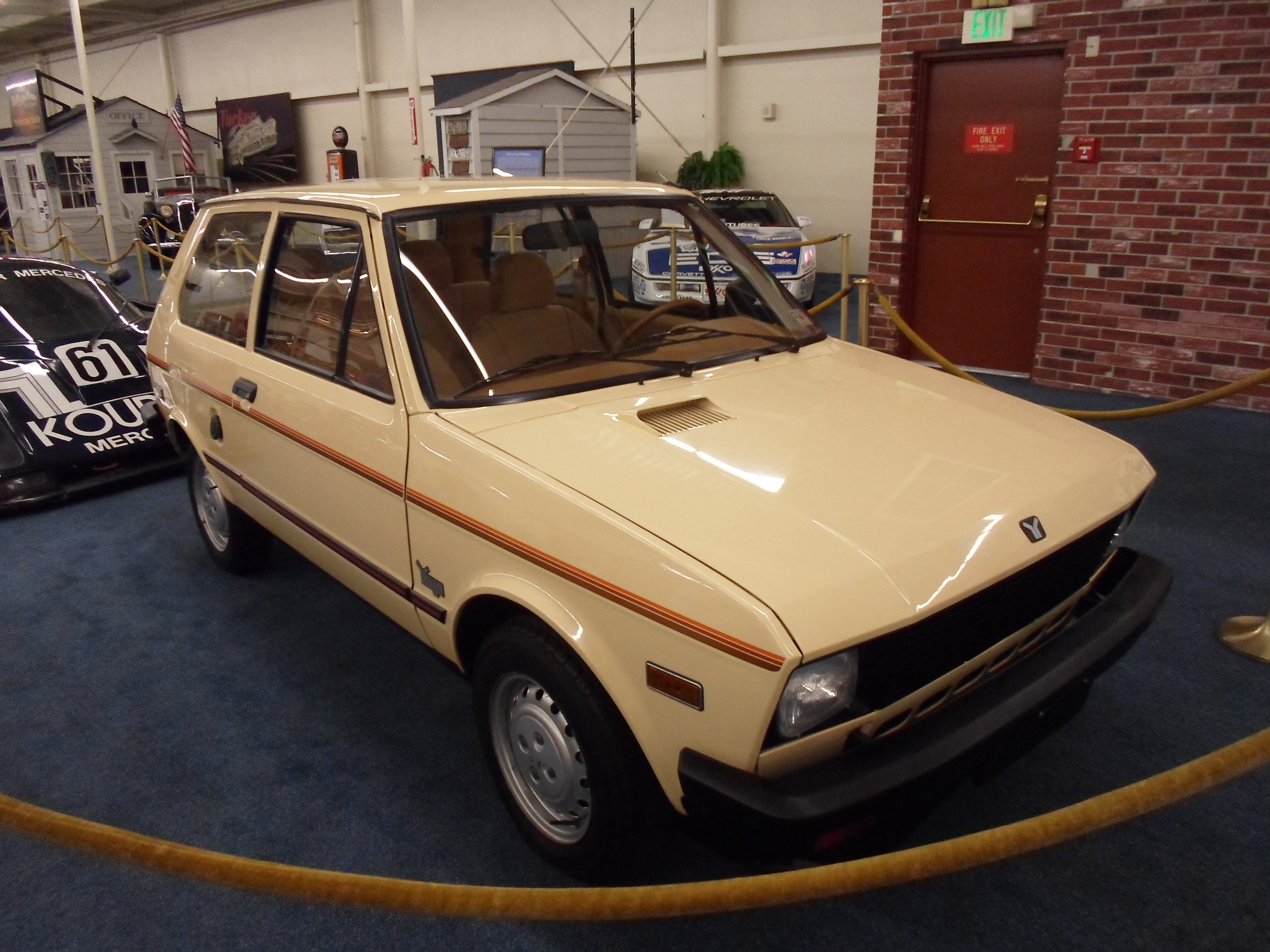 Perhaps the best condition Yugo in the world? Imperial Palace Auto Collections, Las Vegas